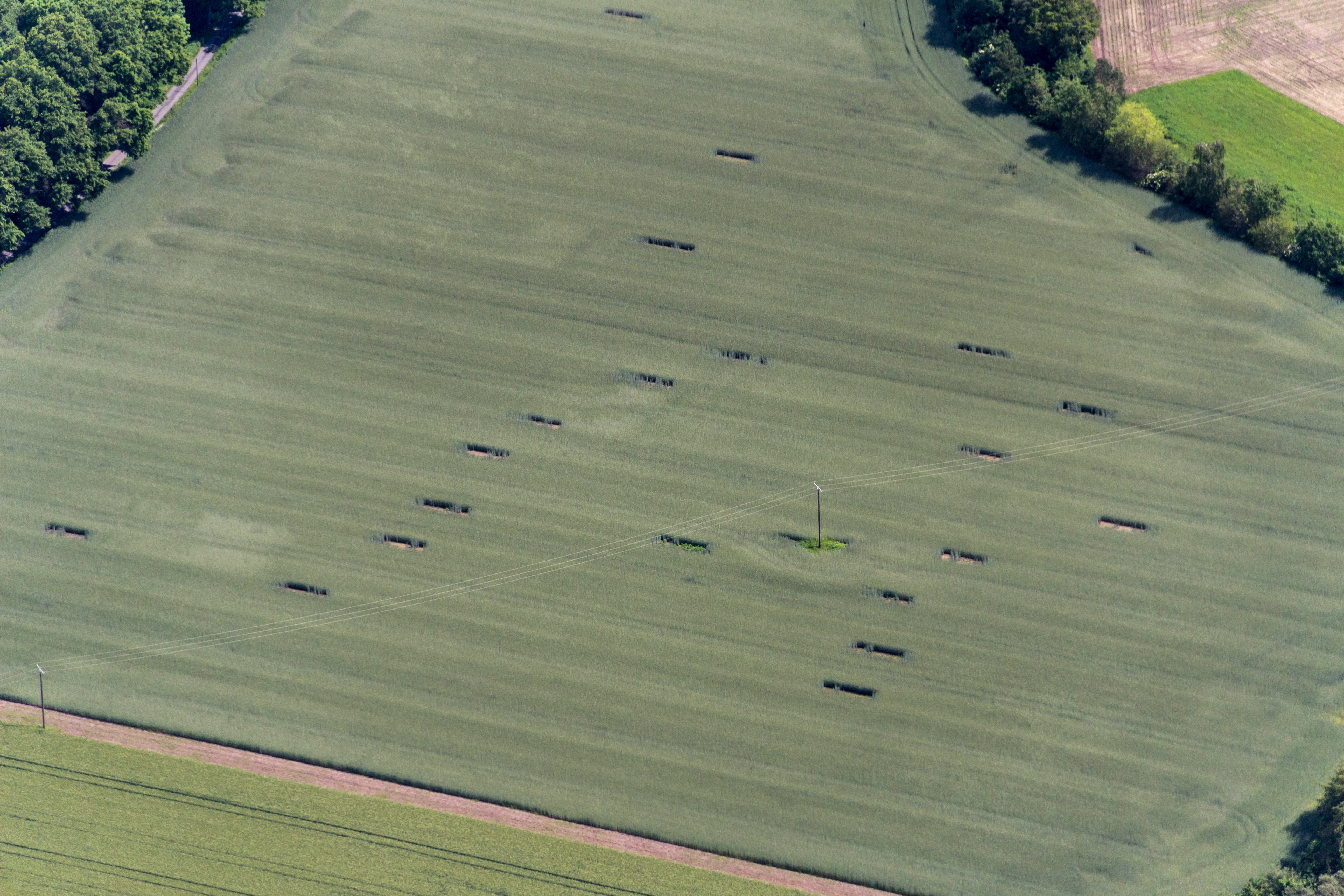 Ostbevern, North Rhine-Westphalia, Germany